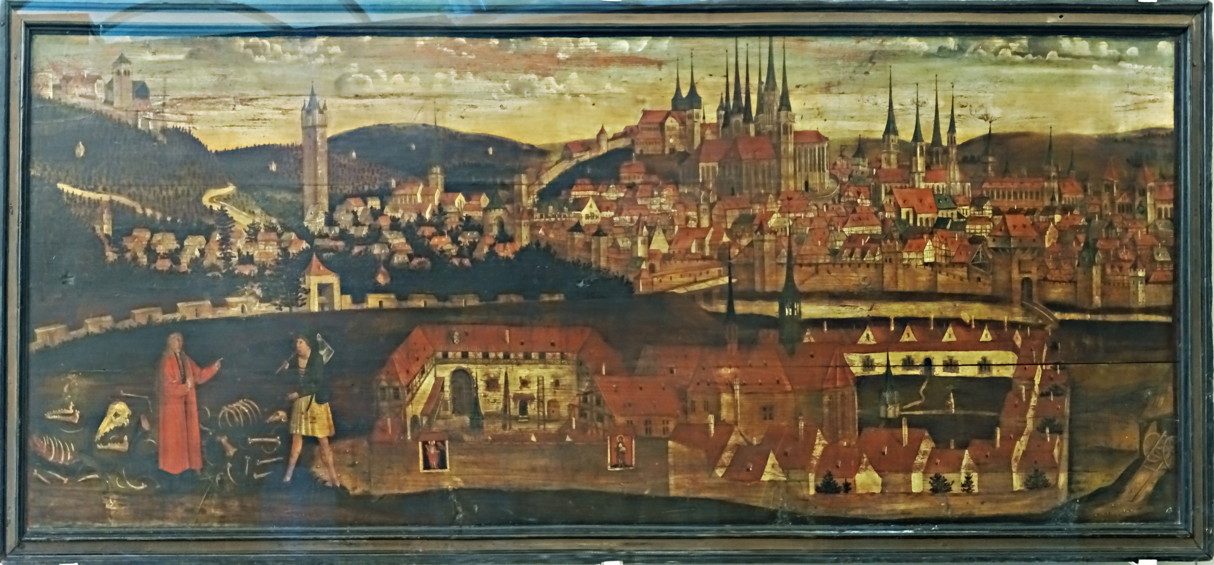 City view of Erfurt with the legend of the foundation of the Erfurter Carthusian monastery, c. 1525, painting on wood, the original is in the Angermuseum Erfurt